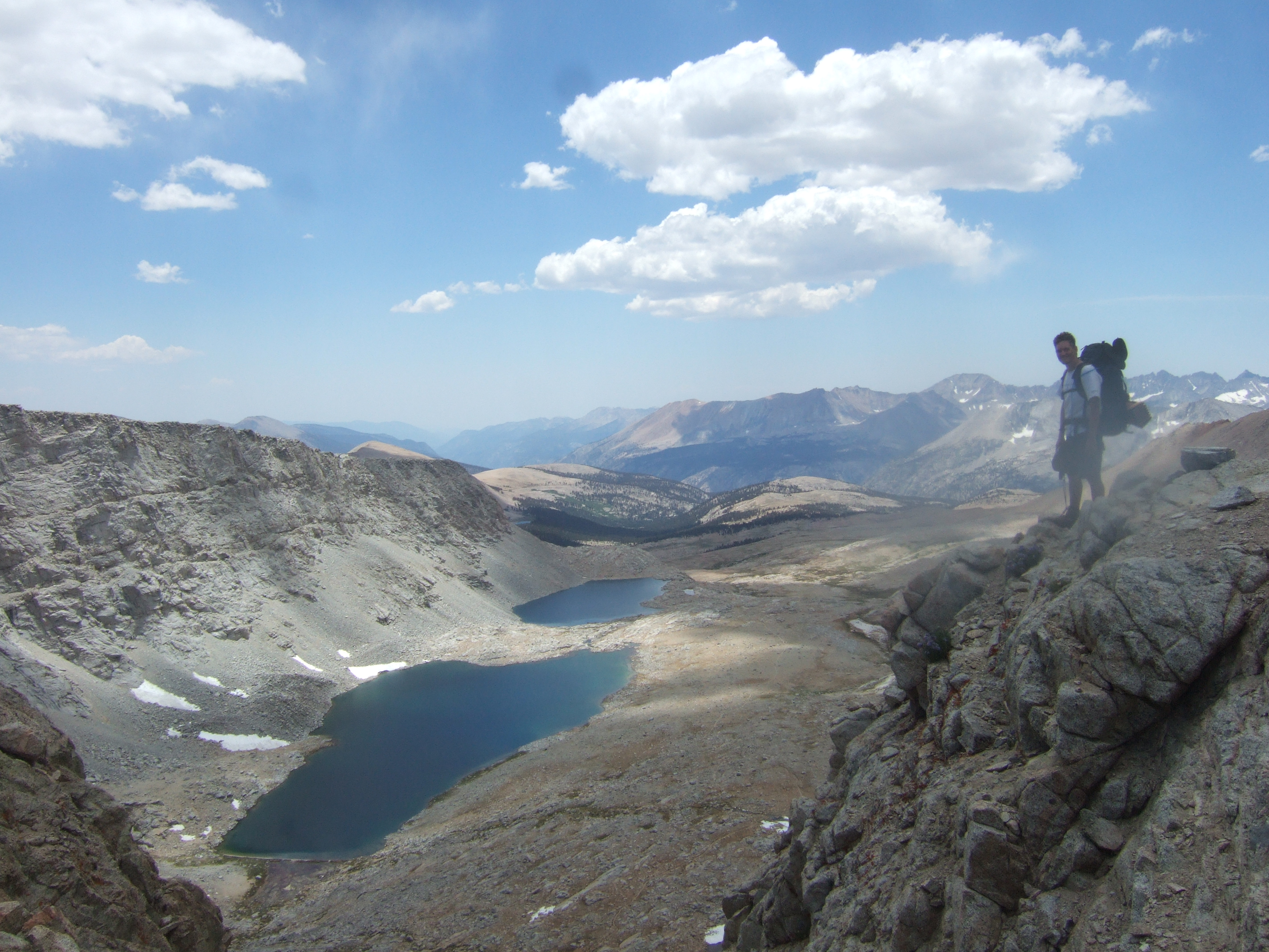 View from Forester Pass